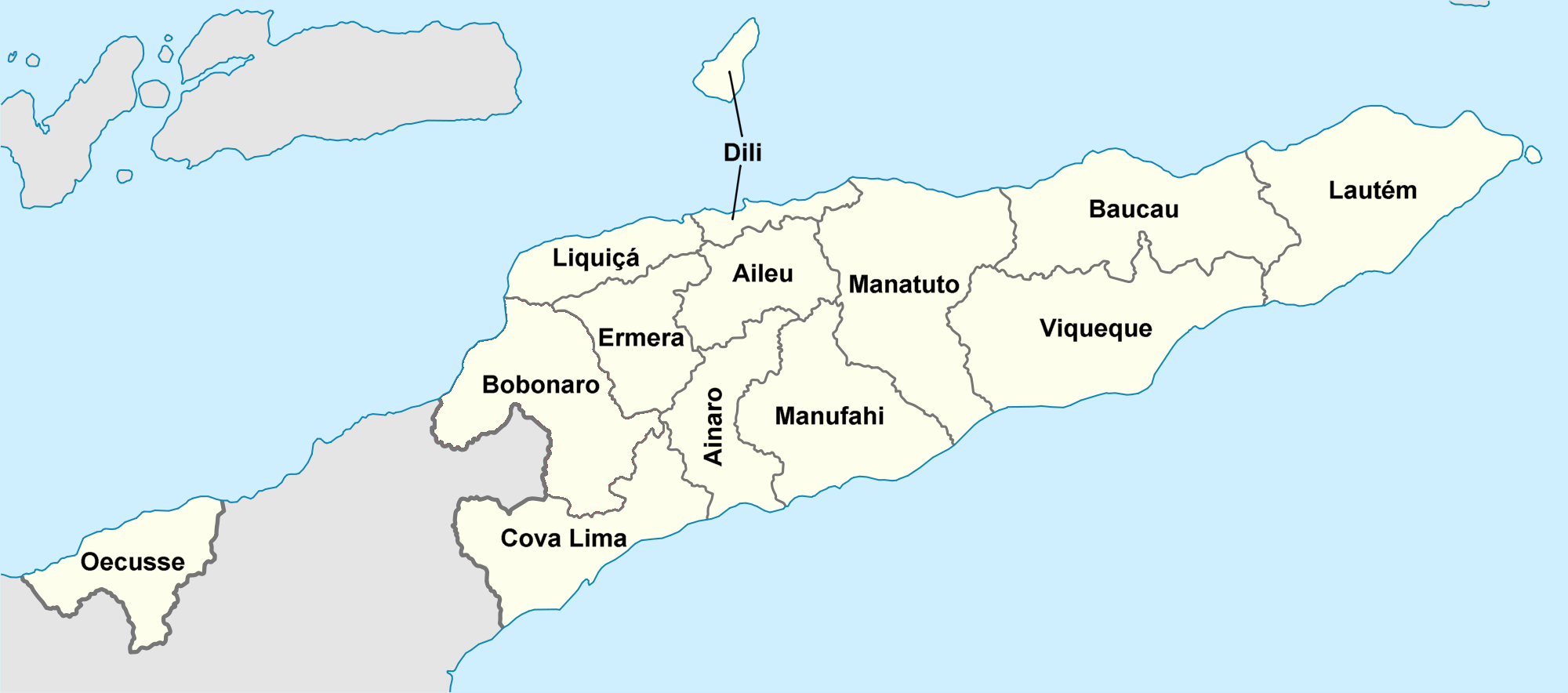 Locator map of municipalities of East Timor